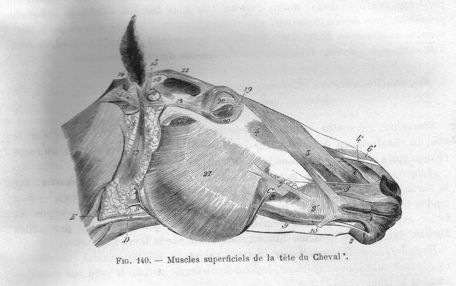 The superficial muscles of the horse's (Equus caballus) head.